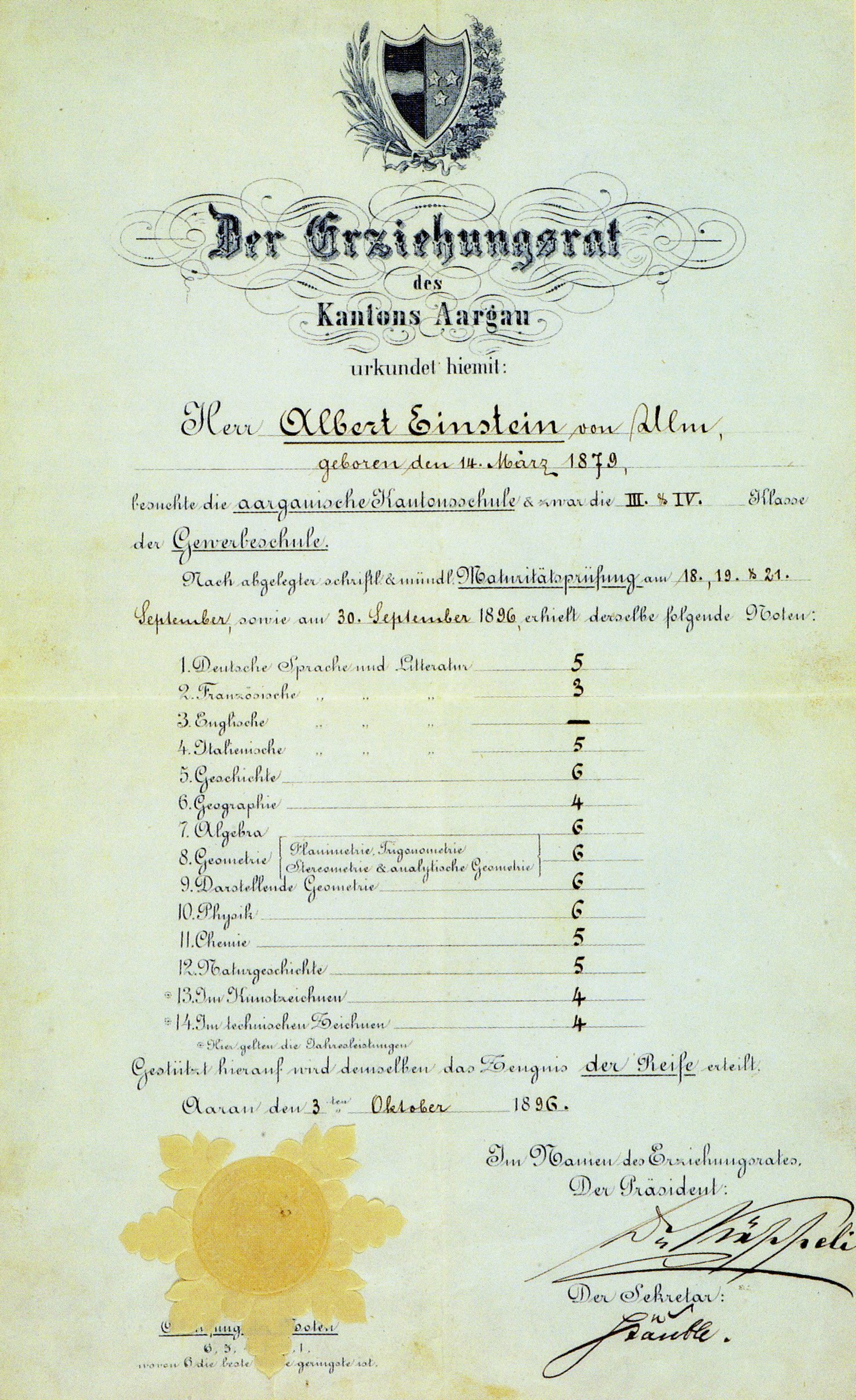 The certificate of maturity issued to Albert Einstein in 1896, at the age of 17, after attending the cantonal high school in Aarau, Switzerland. In this scoring scheme, 6 is the highest, and 1 the lowest grade.